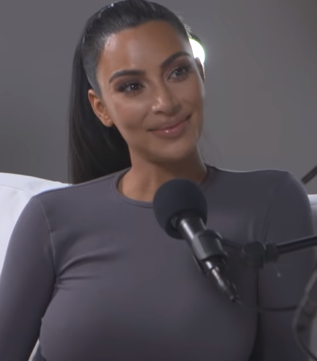 Kim Kardashian at the podcast Pretty Big Deal with Ashley Graham in 2018